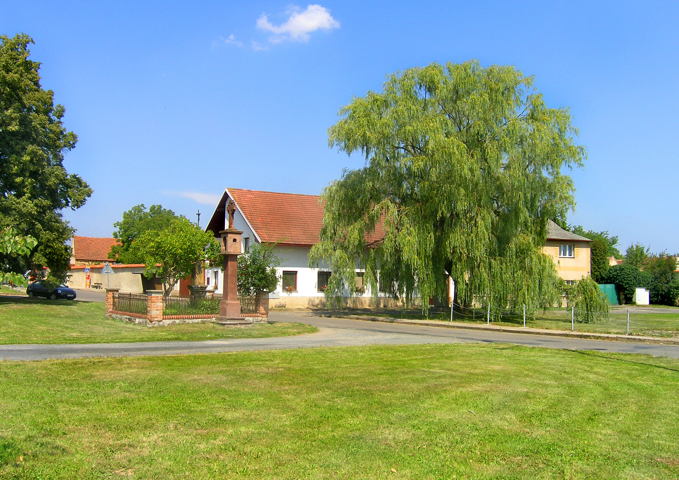 Stupice, part of Sibřina village. Czech Republic